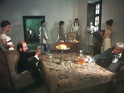 Intellectuals gather in Bányácska